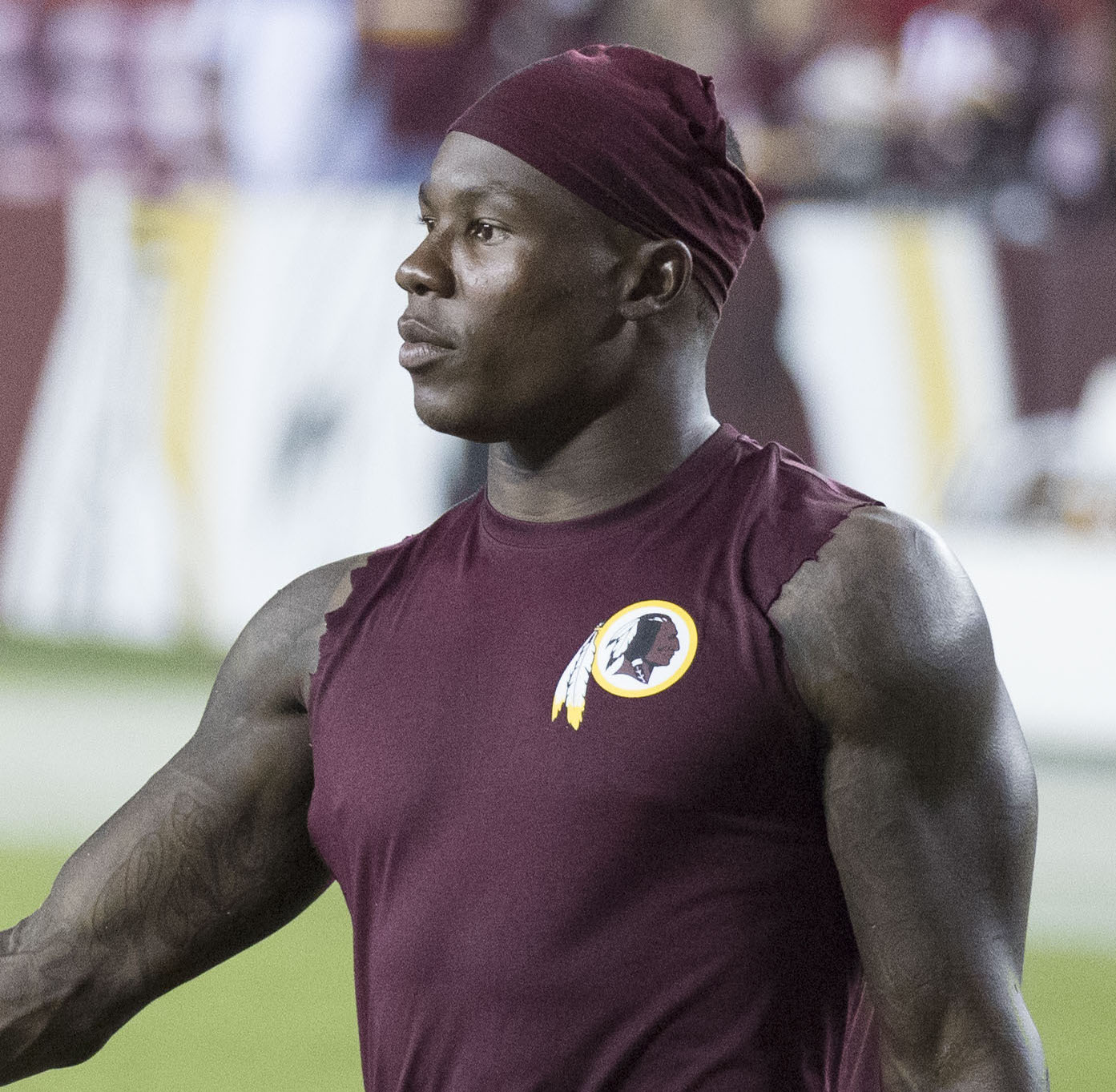 Washington Redskins safety, Duke Ihenacho, shaking hands after a preseason game with the Buffalo Bills on August 26, 2016.